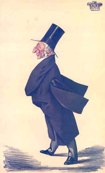 Caricature of Sir Arthur Wellesley KG PC MP, 2nd Duke of Wellington. Caption read "The son of Waterloo".